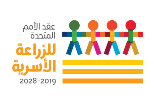 UNDFF LOGO Arabic